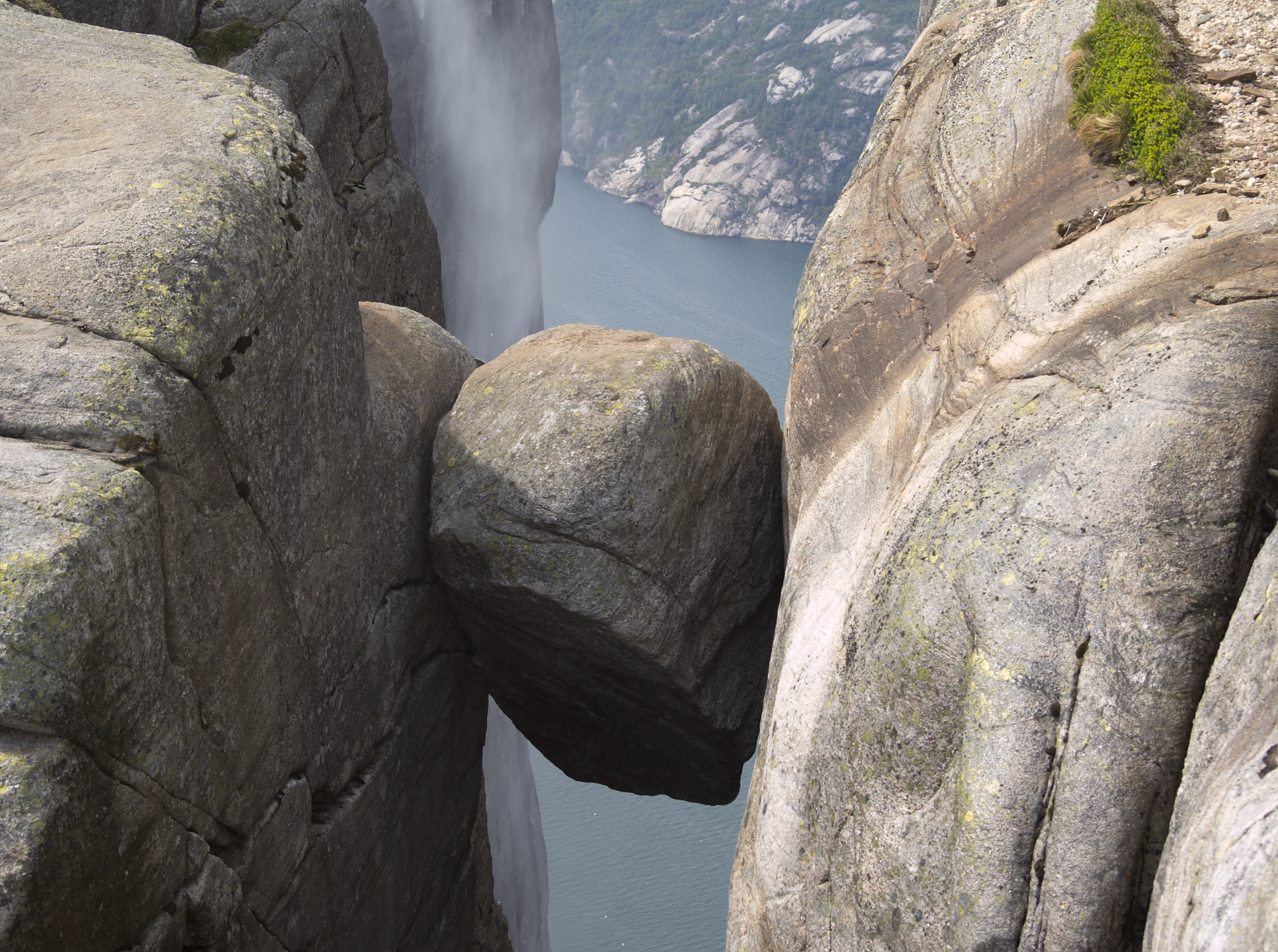 Kjeragbolten.